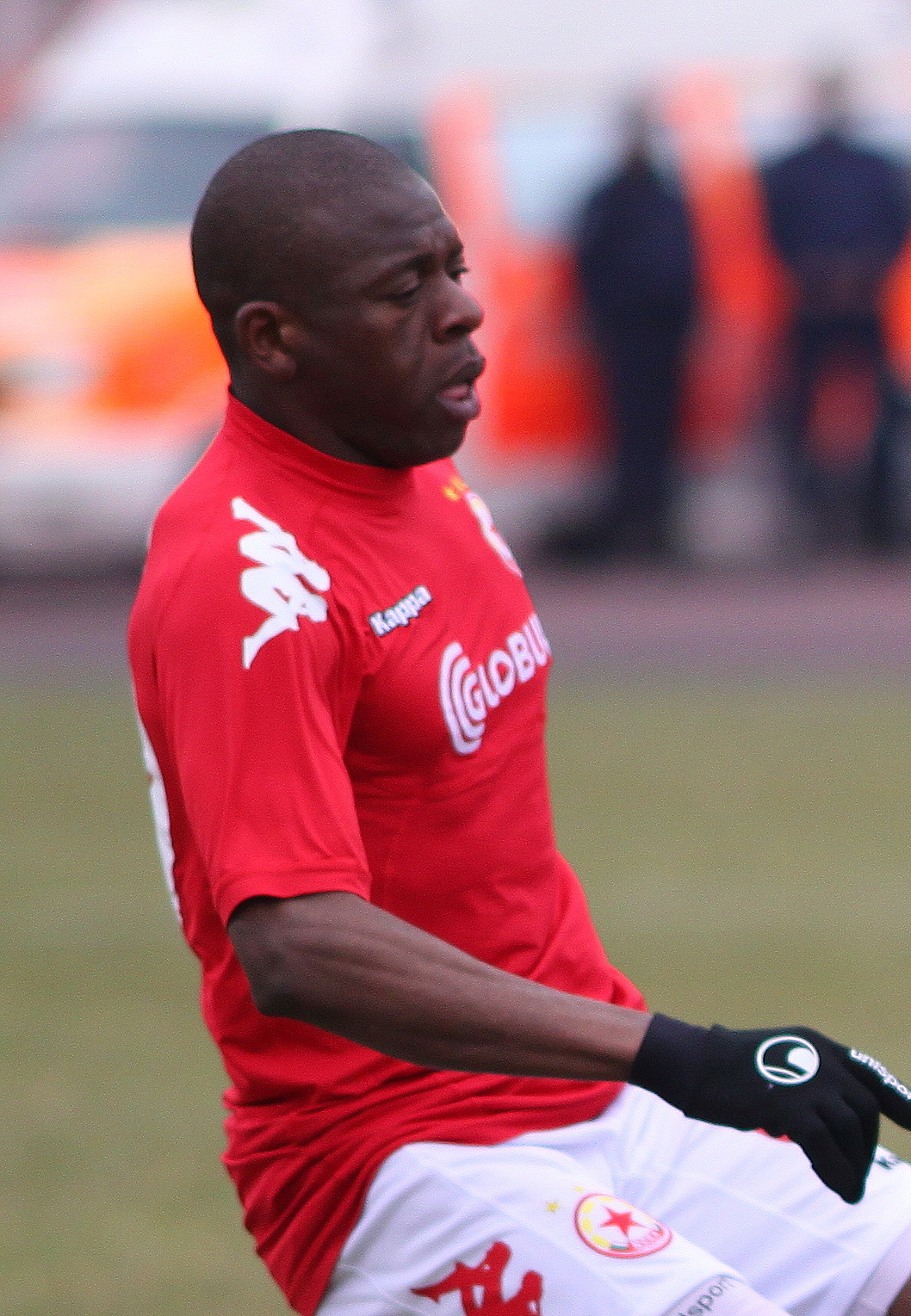 Njongo Lobe Priso Doding (born 24 December 1988 in Cameroon) is a professional association football player who currently plays for Bulgarian A PFG side CSKA Sofia.